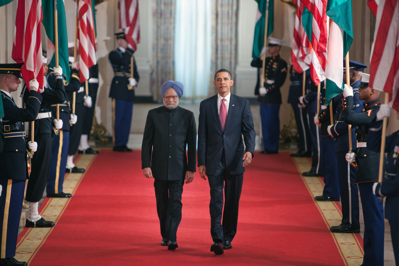 President Barack Obama and Prime Minister Singh of India walk along the Cross Hall of the White House towards the East Room for the arrival ceremony